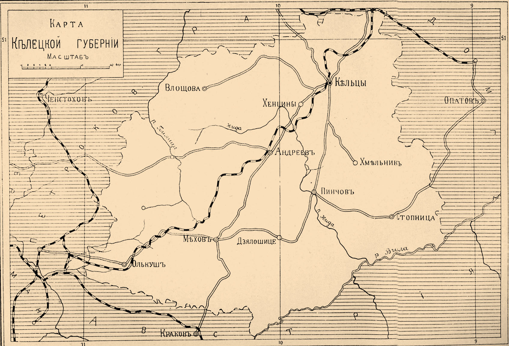 Illustration from Brockhaus and Efron Jewish Encyclopedia (1906—1913)